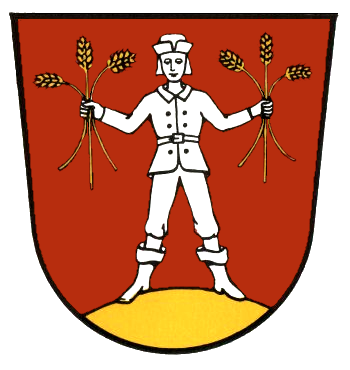 Former coat of arms of municipality Neukirchen am Inn in Neuburg am Inn